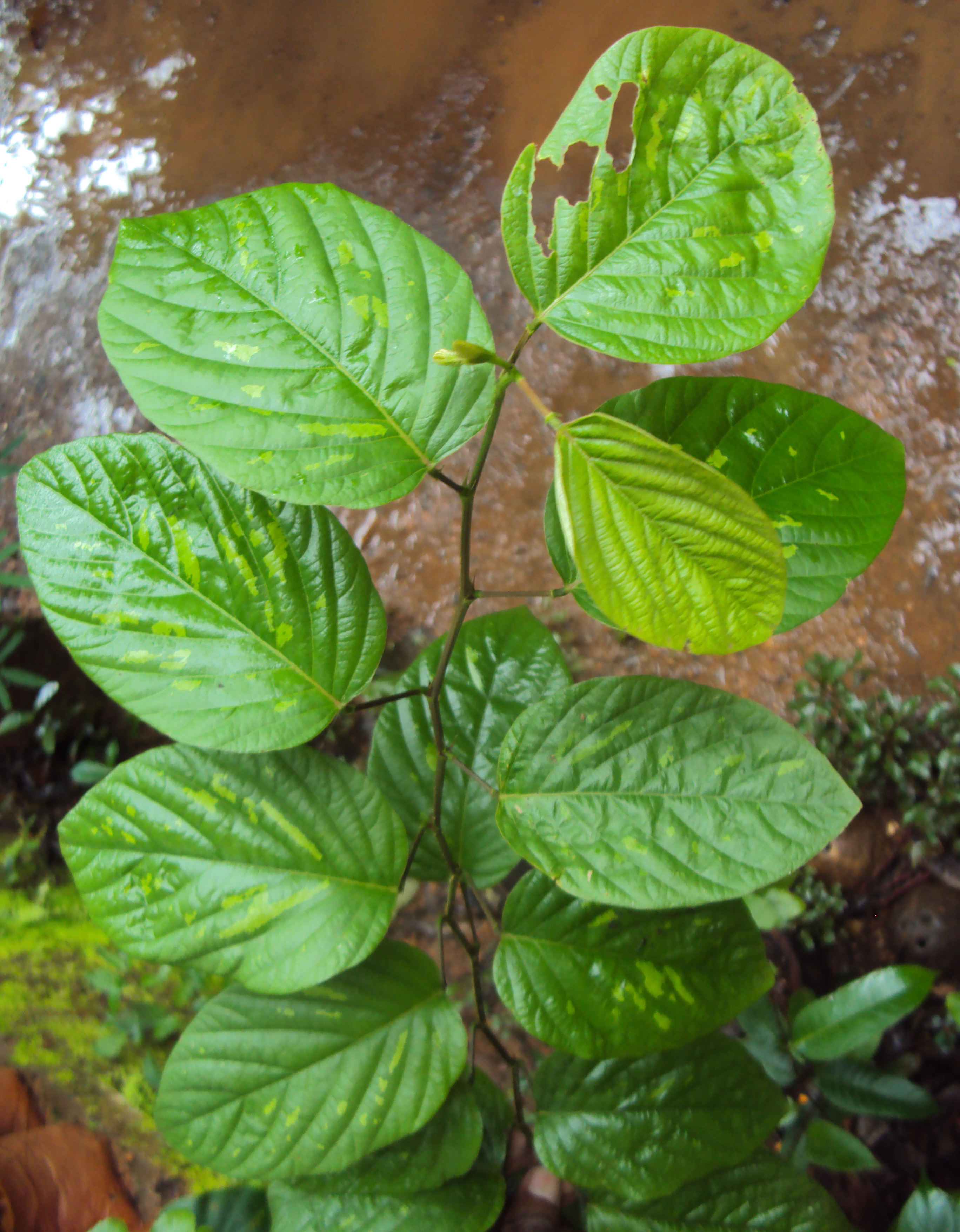 Desmodium gangeticum